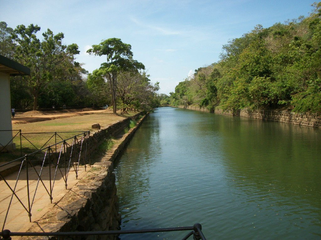 Sigiriya moat 2011